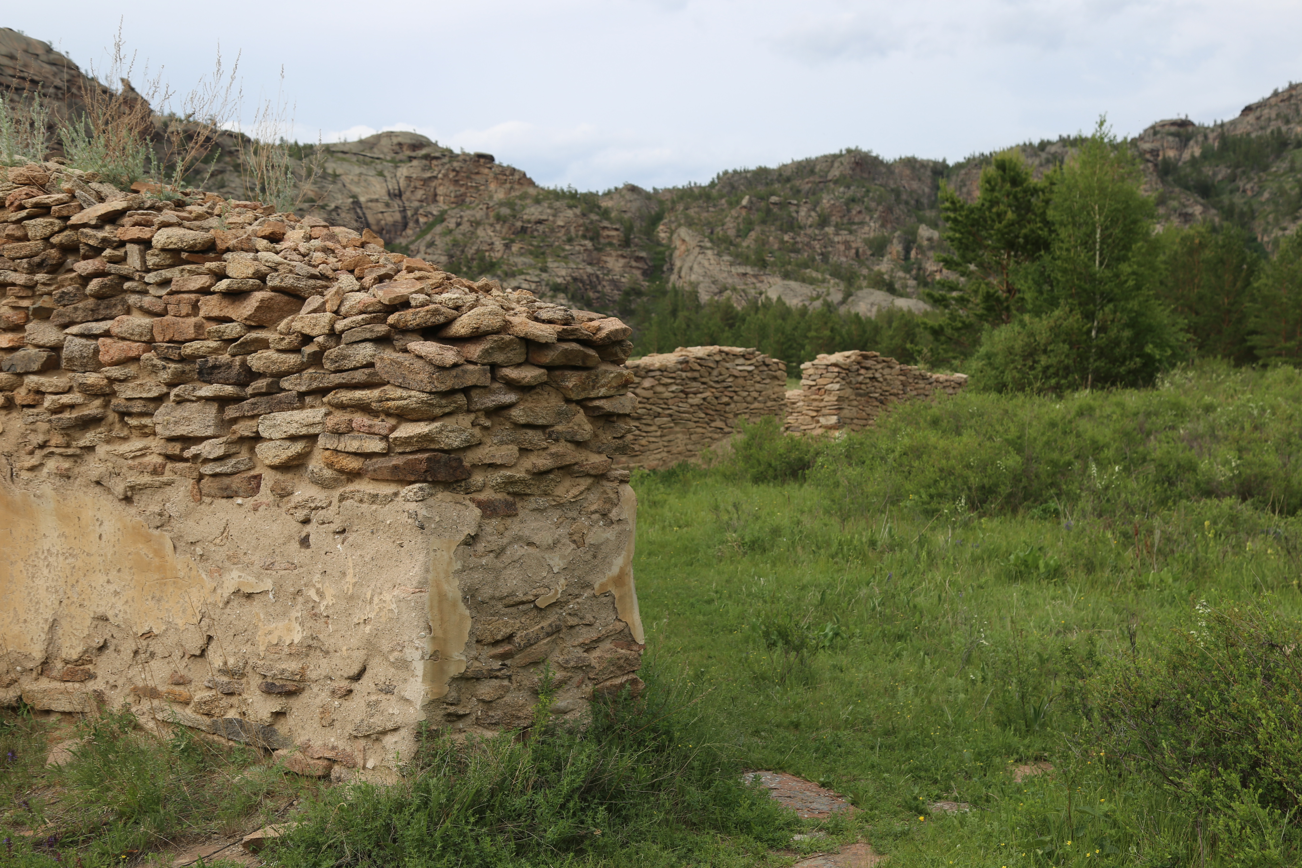 Kyzyl-Kenish